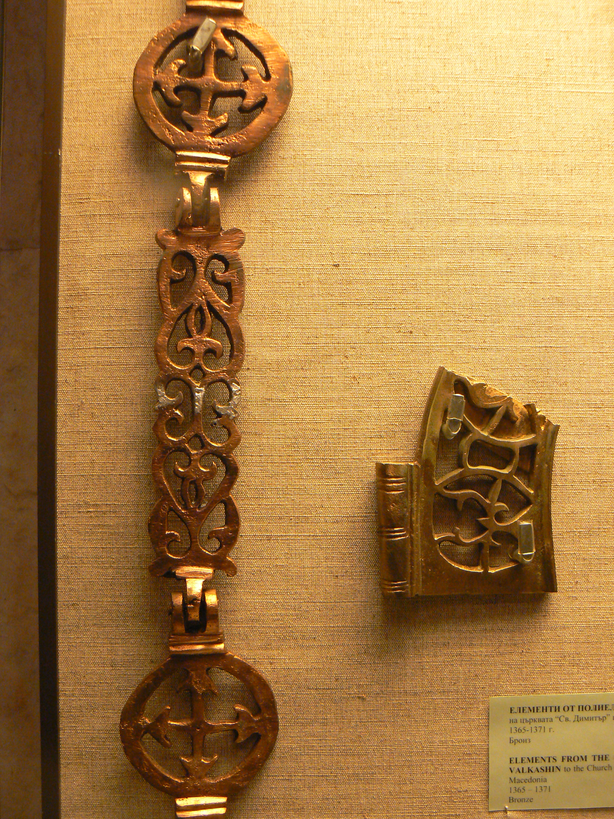 Bronze elements from the chandelier, donated by King Valkashin to the Church "Saint Demetrius" in the Markov Monastery, Macedonia (1365-1371). Exhibits of the National History Museum of Bulgaria